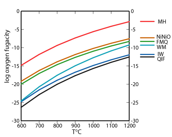 Log oxygen fugacity vs temperature at 1 bar pressure for common buffer assemblages, plotted from algorithms compiled by B. R. Frost in Mineralogical Society of America "Reviews in Mineralogy" Volume 25, "Oxide Minerals: Petrologic and Magnetic Significance" (D. H. Lindsley, editor) (1991) (MH, magnetite-hematite; NiNiO, Nickel-nickel oxide; FMQ, fayalite-magnetite-quartz; WM, wustite-magnetite; IW, iron-wustite; QIF, quartz-iron-fayalite)